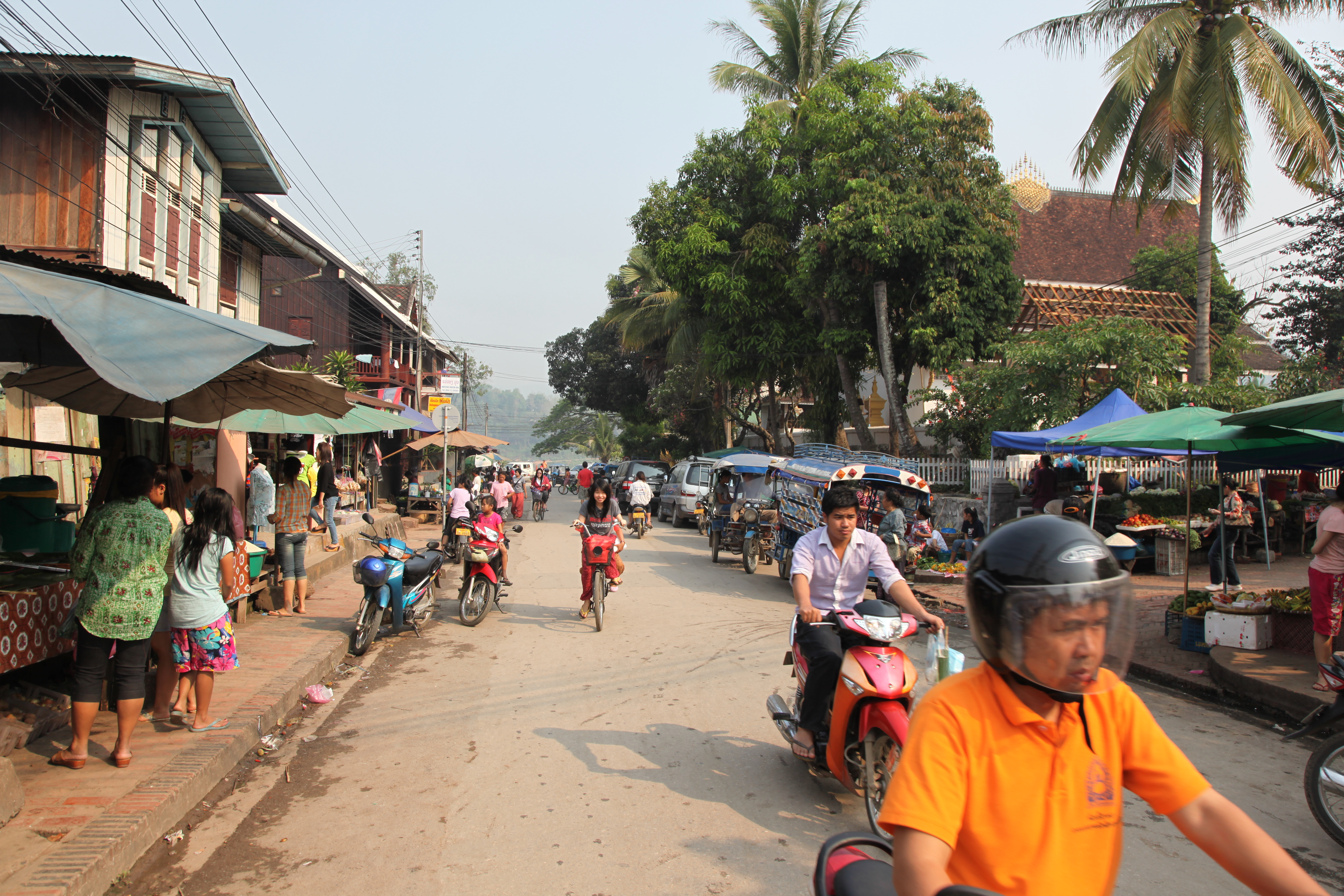 From Kitsalat Road in Luang Prabang (Laos) with entrance to a street market on the right.